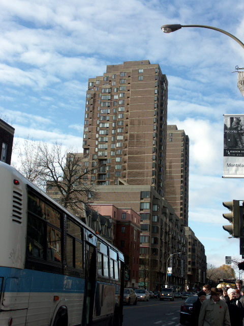 Park Avenue, Montreal. View from the "McGill Ghetto". Photo by: user:gene.arboit